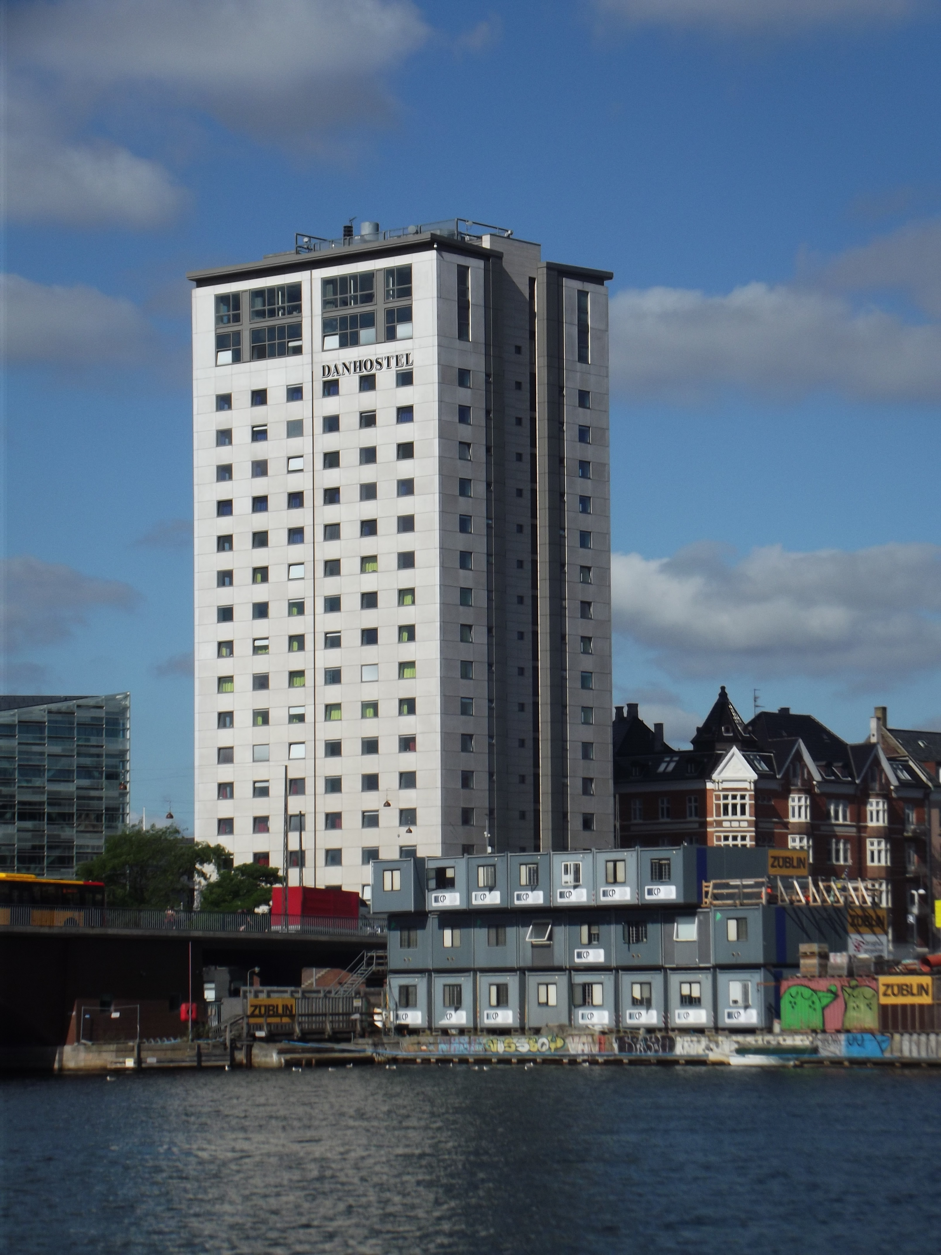 Danhostel Copenhagen City (Copenhagen, Denmark)